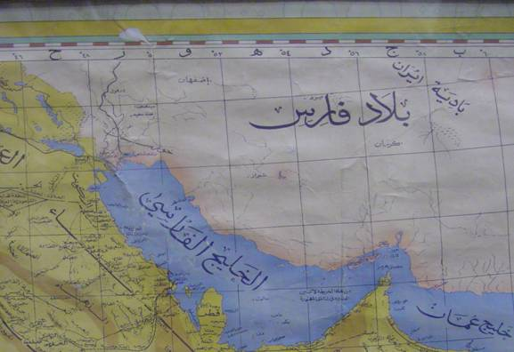 The map of the Persian gulf in 1952 it is in public domain in Iran.